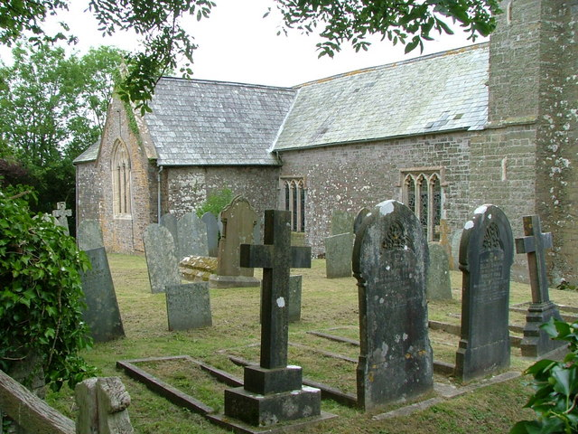 Alwington St Andrew's Churchyard.